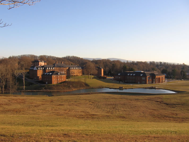 taken by Christopher Powers (c) 2006 You may use this photo for any purpose. If in original form, please credit Christopher Powers when using it. Thank you.